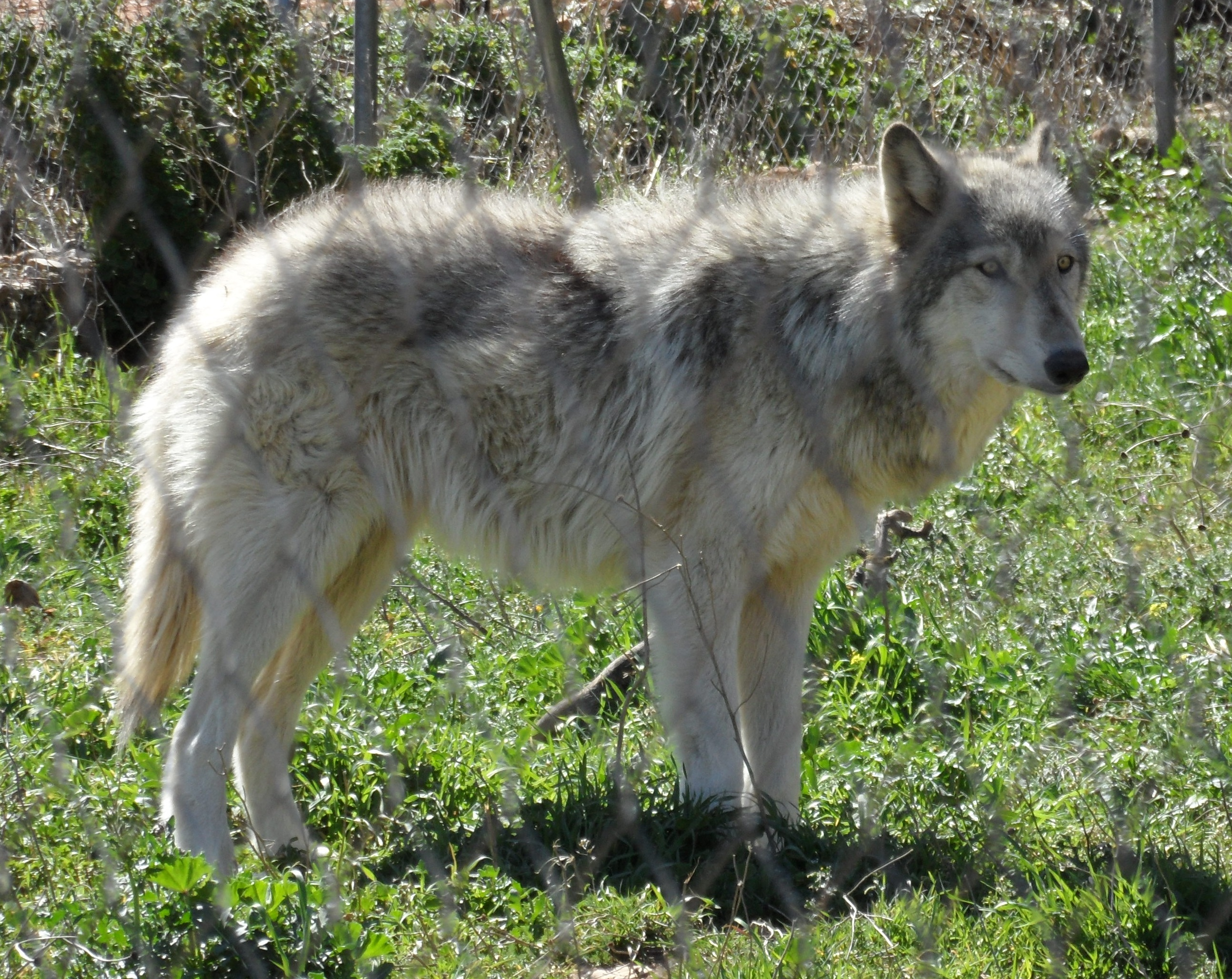 Llop, an arctic wolf x Alaskan malamute hybrid in Lobo Park, Antequerra, Spain